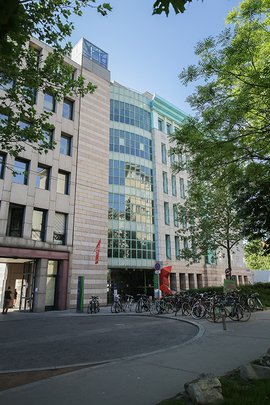 MFPl main building in Vienna's 3rd district.